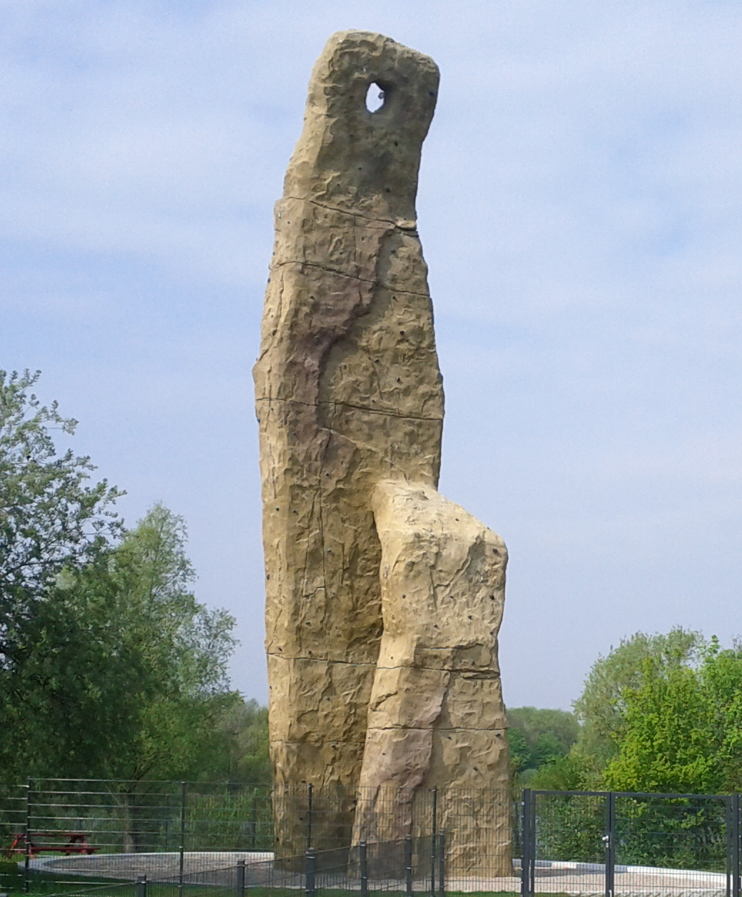 Artificial Climbing Tower in Berlin-Spandau, Germany